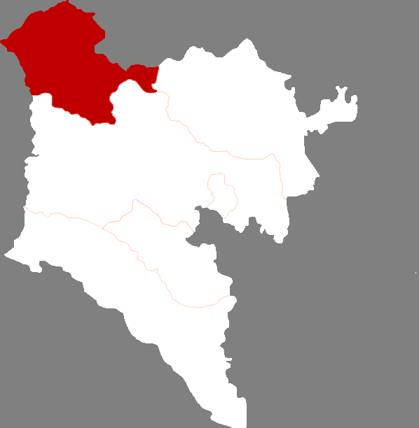 Locator map of Arxan City in Hinggan League, Inner Mongolia, China